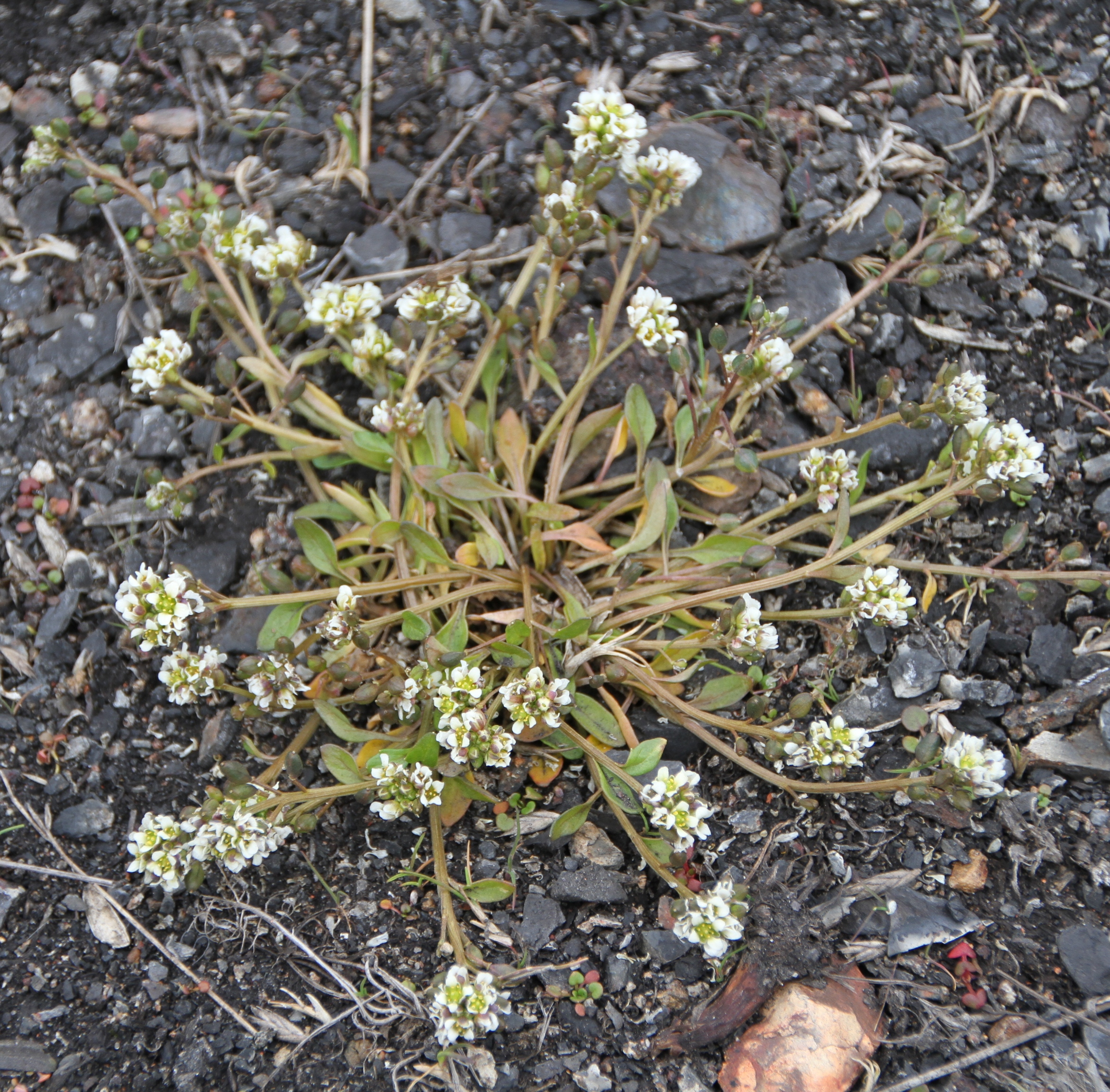 Cochlearia groenlandica (alt. polaris, fenestrata), the flower known in norwegian as "Polarskjørbuksurt", here at western Spitsbergen (Norway).